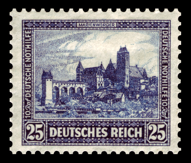 Series for social help, buildings Ausgabepreis: 25+10 Pfennig First Day of Issue / Erstausgabetag: 1. November 1930 Michel-Katalog-Nr: 452 (Deutsches Reich)